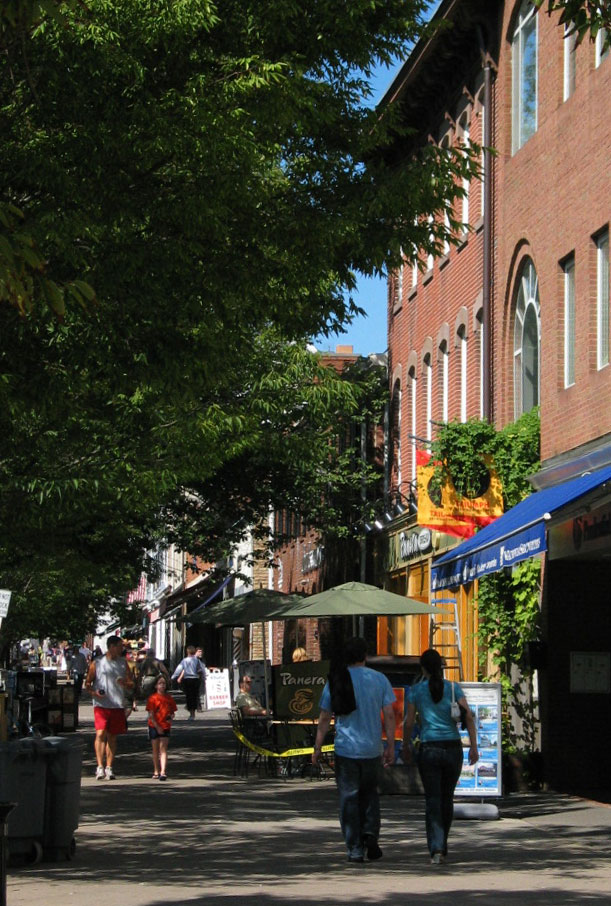 The Nassau street is the central in Princeton.